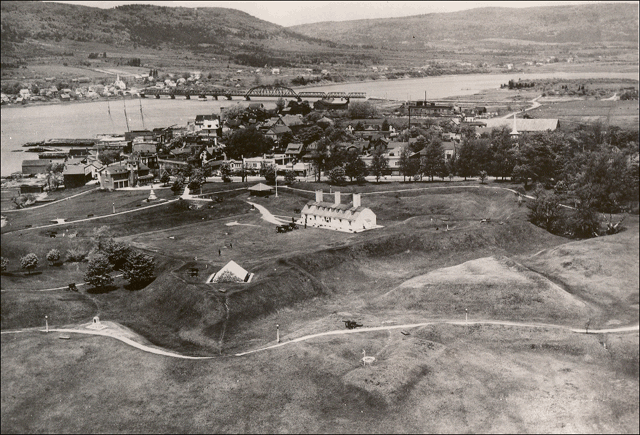 Aerial photograph of Fort Anne in Annapolis, Nova Scotia, taken from the south, circa 1930.